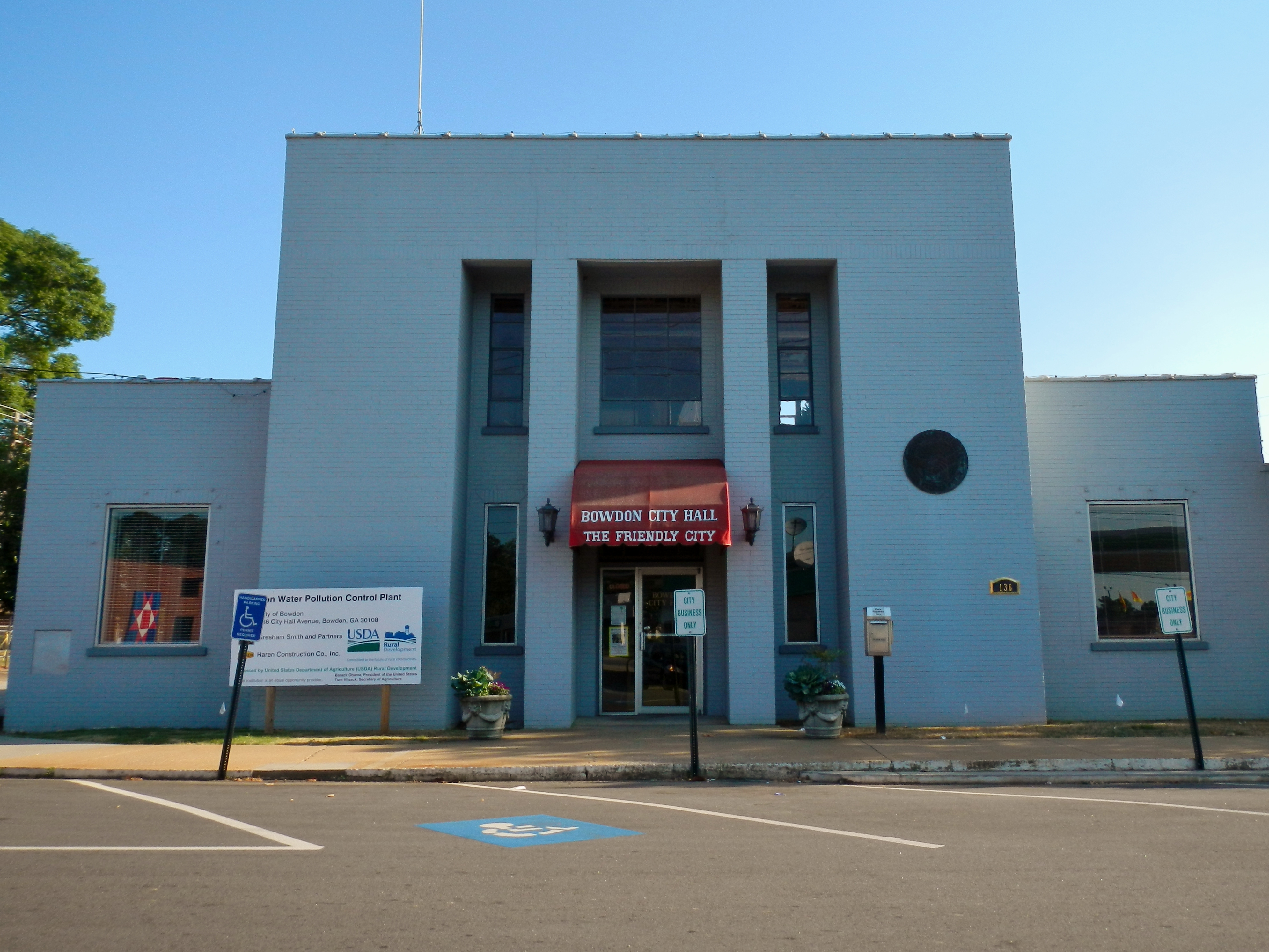 This is a photograph of the city hall in Bowdon, GA.